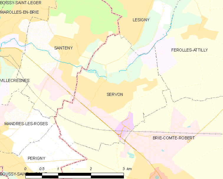 Map of French municipality Servon